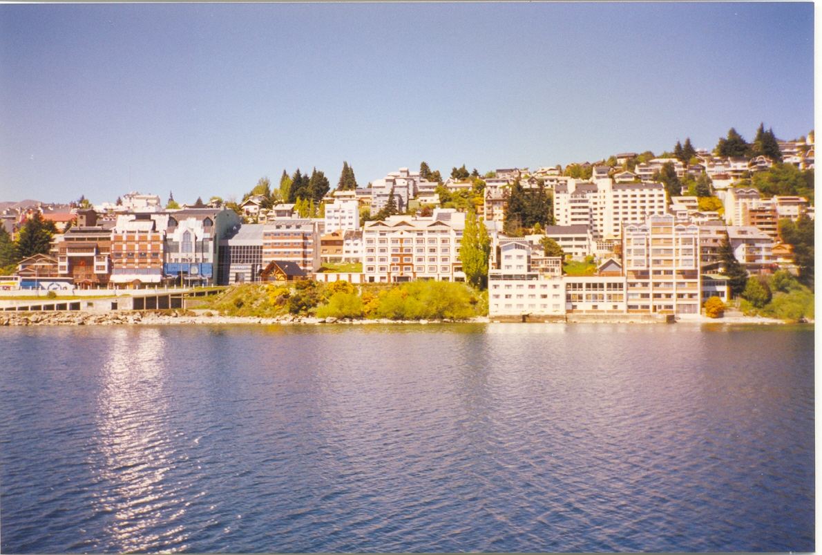 San Carlos de Bariloche